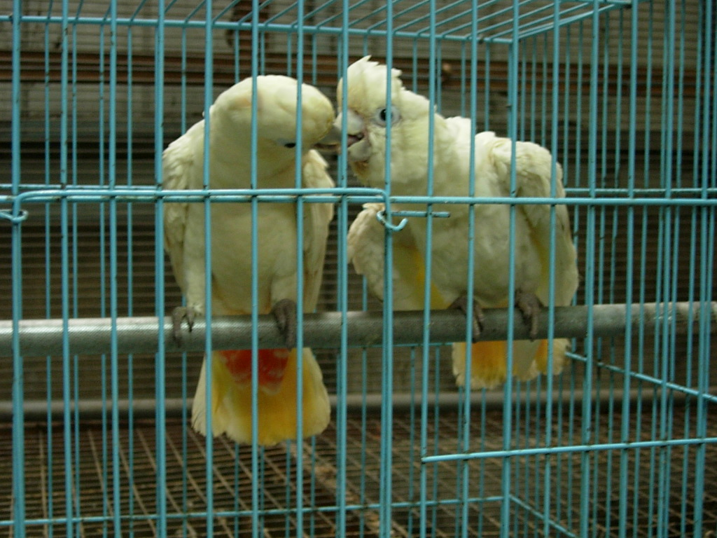 Red-vented Cockatoo (also called the Philippine Cockatoo); two in a cage.